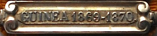 Gesp Guinea